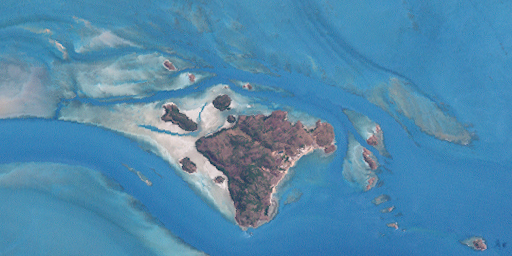 Mabuiag and surrounding Islets, Western Torres Strait Islands, Queensland, Australia